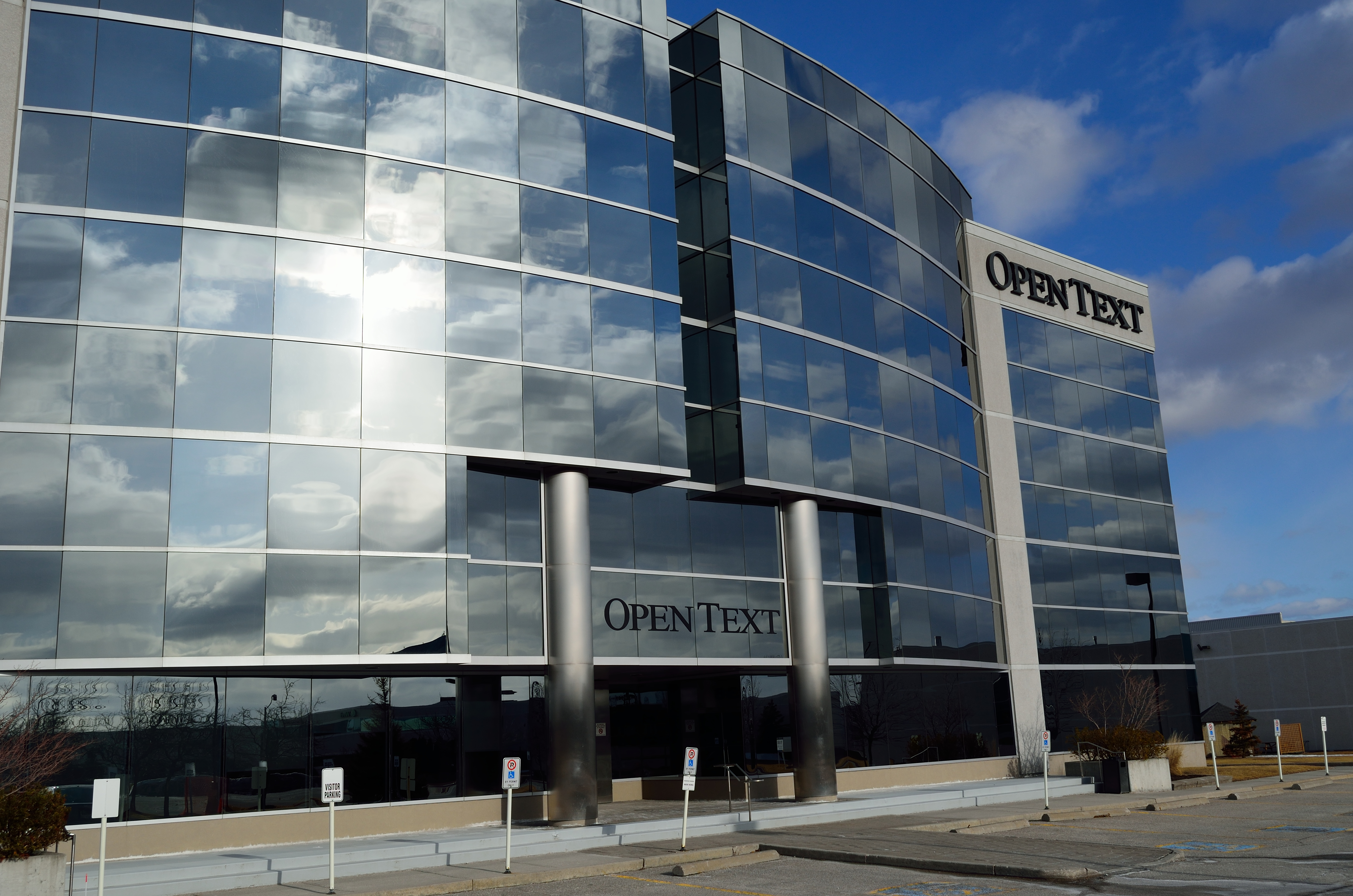 OpenText Office Building (Address: 38 Leek Crescent, Richmond Hill, ON L4B 4N8)